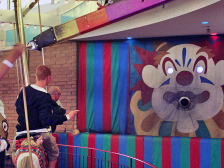 Brass ring dispenser and target on the (National Historic Landmark) 1911 Looff Carousel at Santa Cruz Beach Boardwalk (SCBB), an amusement park located in Santa Cruz, California on the Pacific Ocean. SCBB is California’s oldest amusement park and a State Historic Landmark.